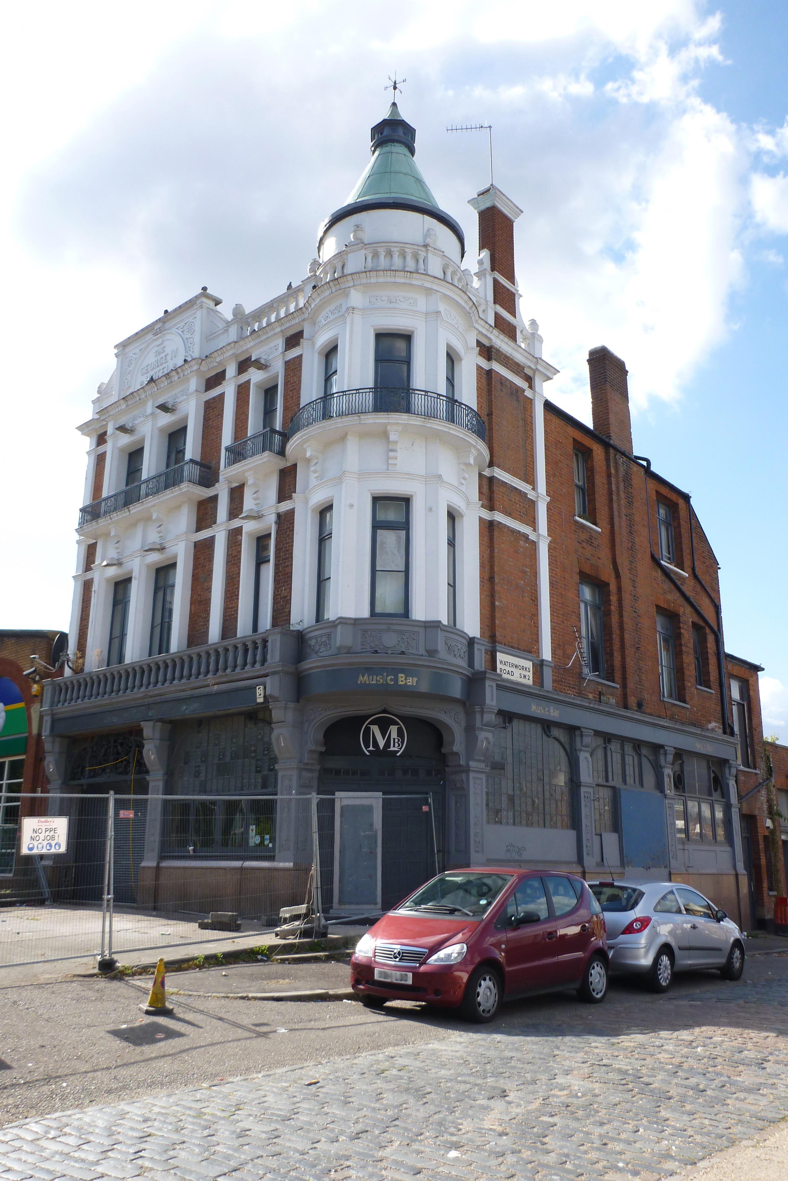 George IV, 144 Brixton Hill, London, UK, SW2 1SD.